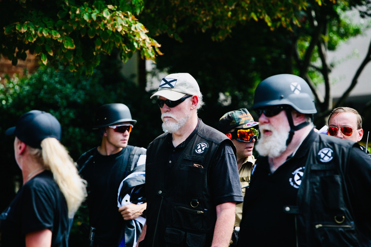 Michael Hill, Ike Baker, and Jeffrey Clark heading West on Market Street in Charlottesville, dispersing after unlawful assembly was declared. This photo was taken on 12 August, 2017.